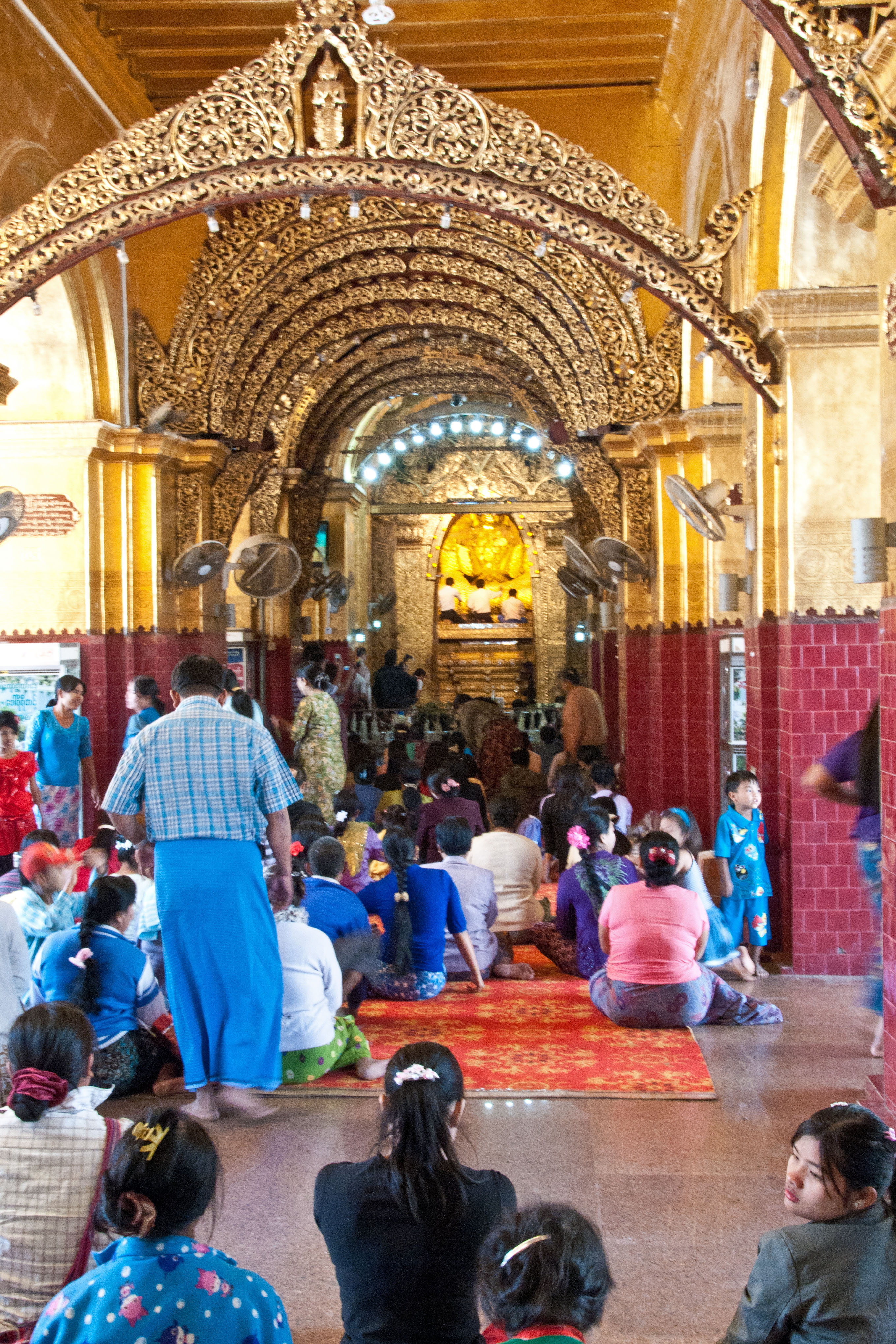 Women pray in front of the railing separating them from the Buddha statue chamber